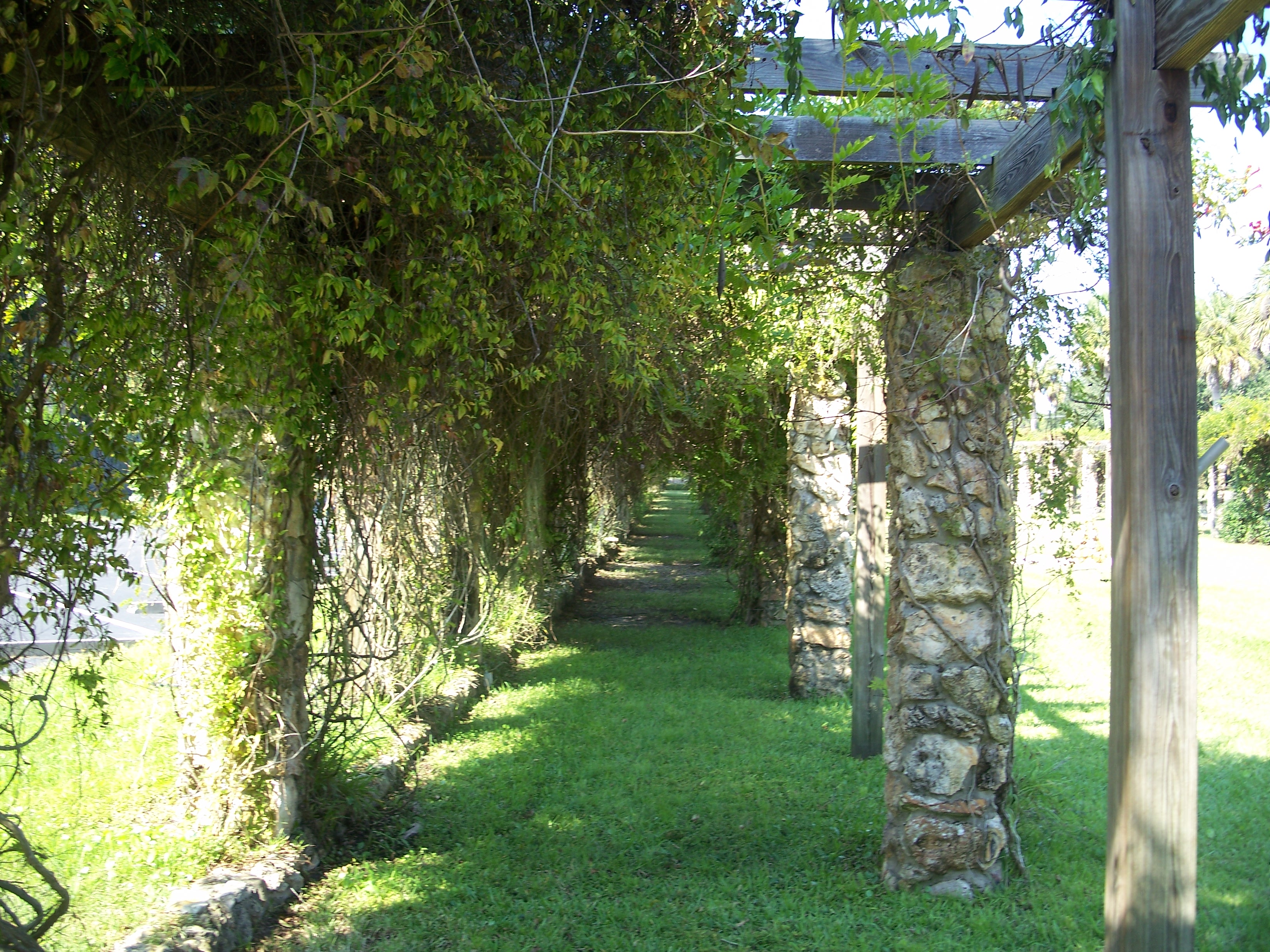 Ravine Gardens State Park: Colonnade